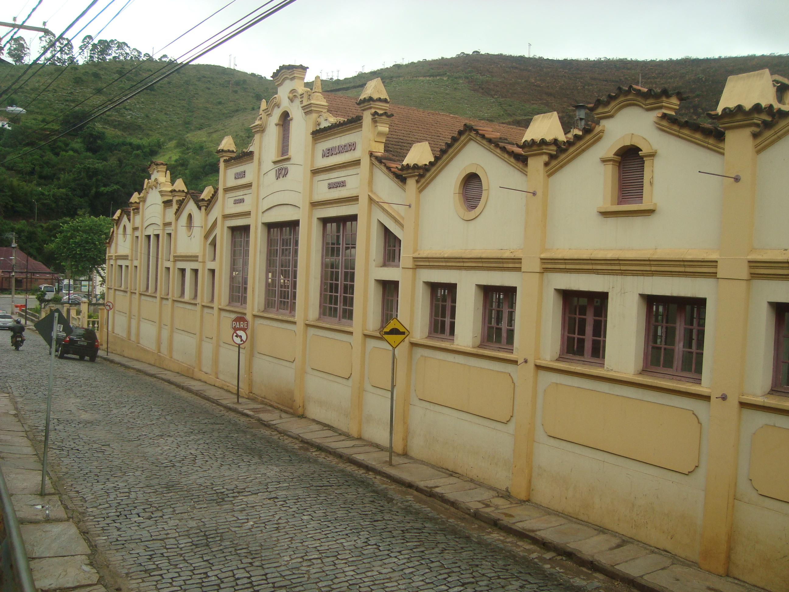 Metalurgical museum